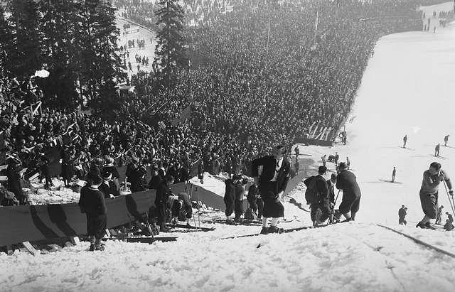 Holmenkollbakken in Oslo, Norway, during FIS Nordic World Ski Championships 1930